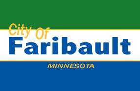 The official city flag of Faribault, Minnesota.